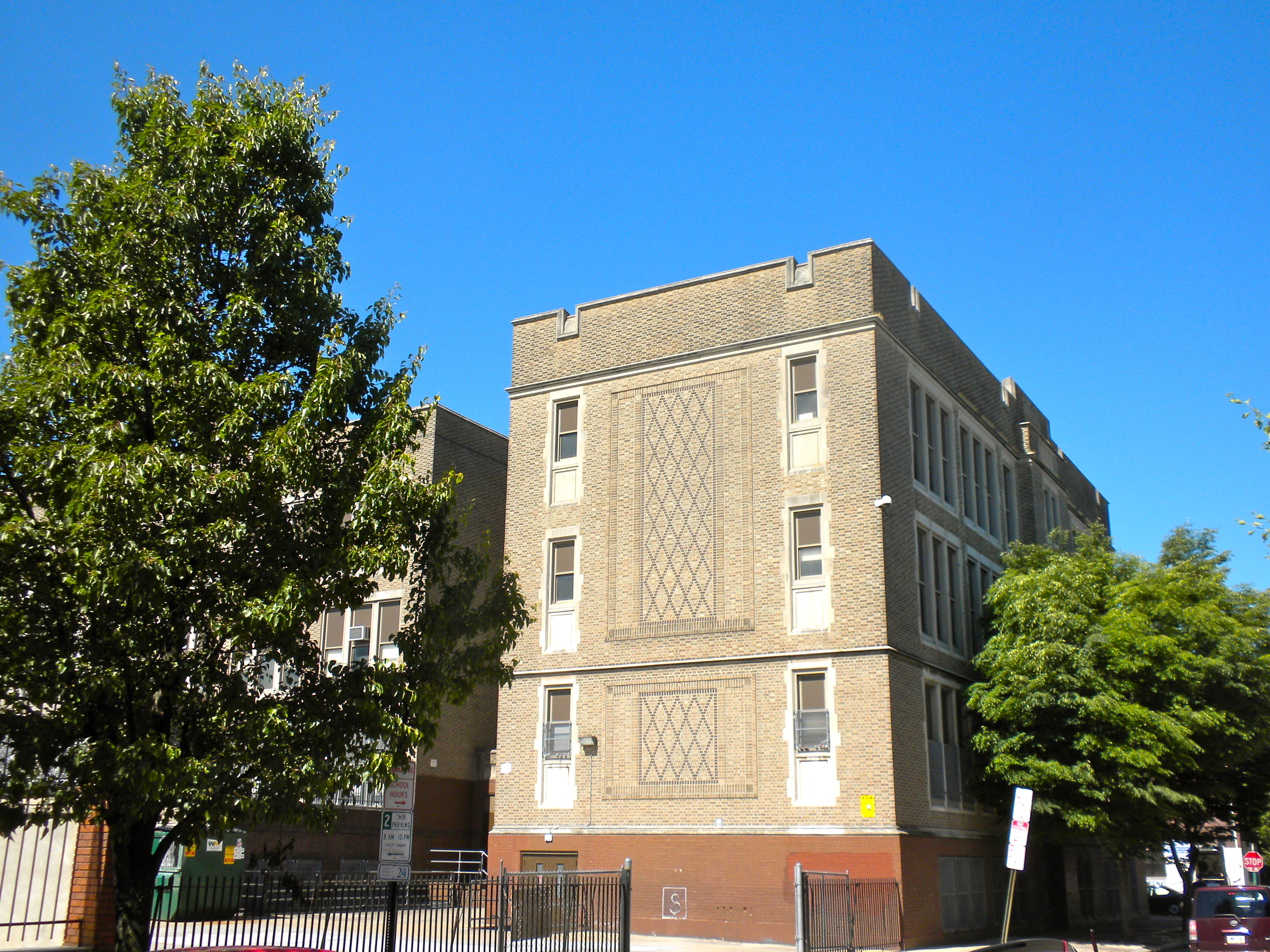 Andrew Jackson School, formerly Federal Street School, on the NRHP since December 1, 1986. At 1213 S. 12th Street in Passyunk Square neighborhood of Philadelphia. This is from the back right next to the Federal Street Jewish Cemetery.